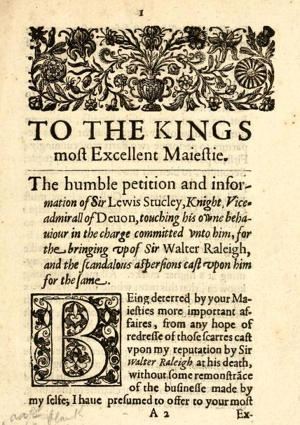 Page from To the Kings Most Excellent Majestie the humble petition and information of Sir Lewis Stucley, knight, vice admirall of Deuon, touching his own behaviour in the charge committed vnto him, for the bringing up of Sir Walter Raleigh and the scandalous aspersions cast upon him for the same Sir Lewis Stucley (1618), a pamphlet by Lewis Stukley defending his conduct towards Sir Walter Raleigh.